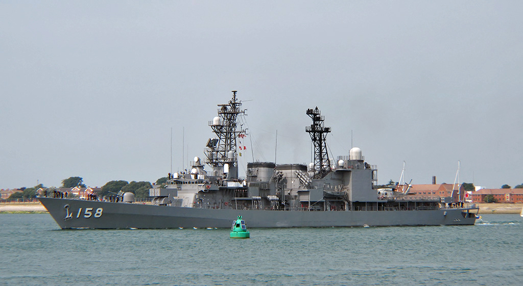 The Japanese Asagiri-class destroyer JDS Umigiri (DD-158) photographed at Portsmouth, UK, on the 28 of July 2008 by Brian Burnell. Image uploaded by me User:George.Hutchinson from a photograph taken by and supplied by Brian Burnell. Wikipedia editors are reminded that the copyright remains with the photographer, and that the terms of the Creative Commons licence; that allow editors to reuse this image apply to Wikipedia editors also, as they do to other re-users of this image. Breaches of the licence terms are not only unlawful, but are also antisocial, in that breaches discourage photographers from making their images freely available to everyone without payment. Wikipedia re-users are also reminded of the license terms that derivatives of this image should not imply that the adaptation is endorsed or approved by the author or copyright holder. Neither should derivatives be presented as the creation of the author or copyright holder, while clearly stating that the adaptation is a derivative of the original. Attribution online should be in this format Brian Burnell. On the printed page, a simpler form is acceptable - example: "Image: Brian Burnell". Non-Wikipedia users are requested to advise Brian Burnell of its use other than on Wikipedia.